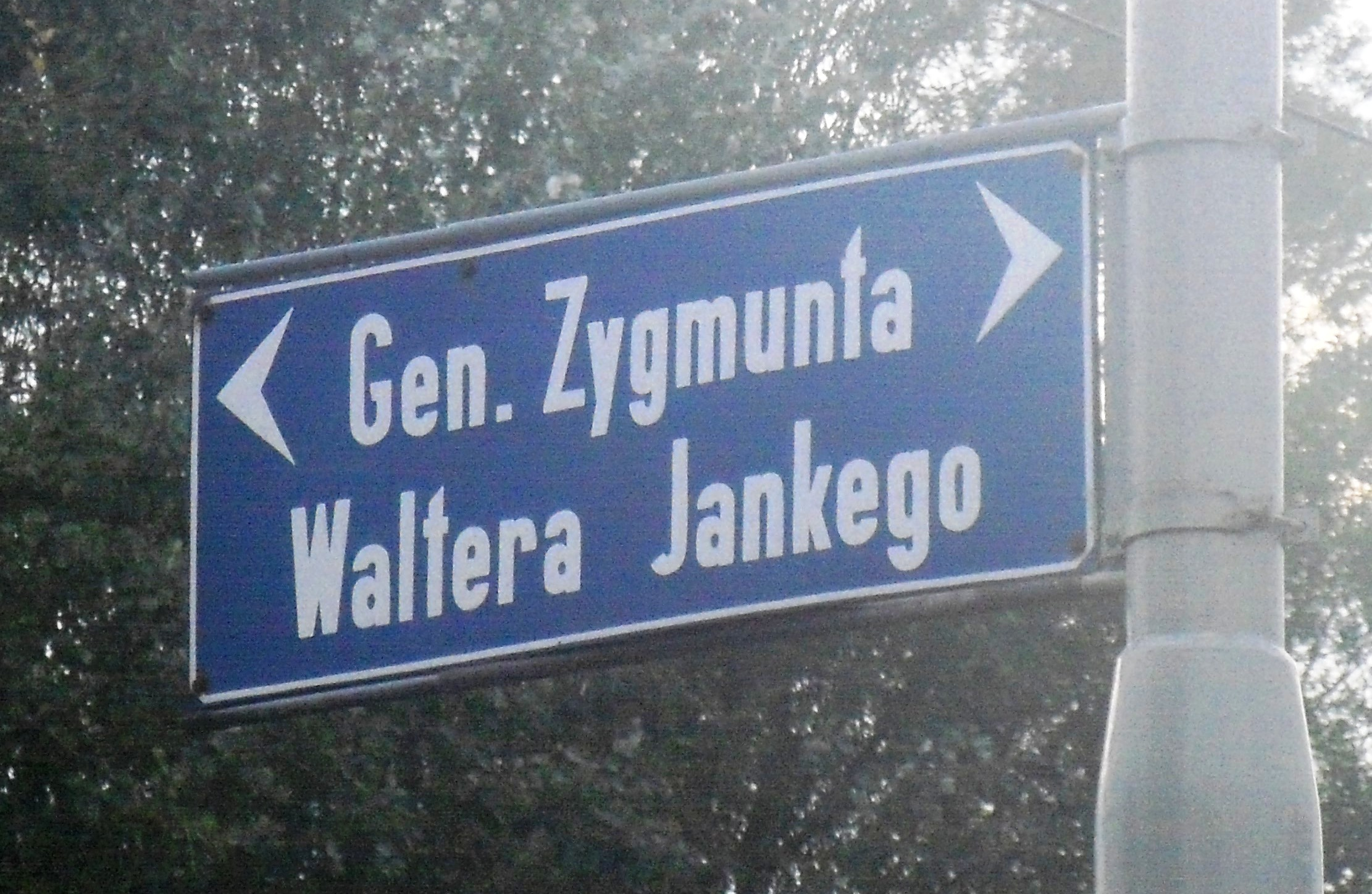 Jankego Street in Katowice